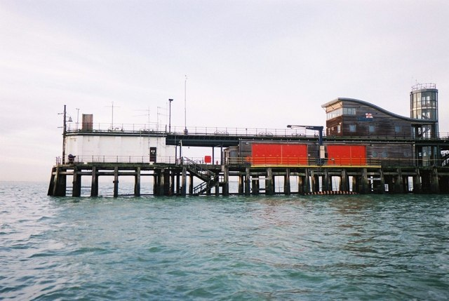 Lifeboat station on Southend Pier, viewed from the sea. The lifeboats live behind the red doors, and are launched by the davit. For more information, see Wikipedia articles Southend Pier and Southend-on-Sea lifeboat station.